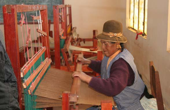 International Development Collaborative. IDC. Bolivian woman weaving. Textiles.